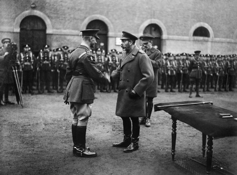 Daniel Marcus William Beak is presented with the Victoria Cross by King George V at Valenciennes.